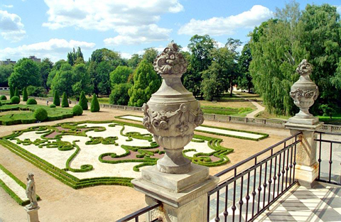 Parterre garden of the Branicki Palace in Białystok, Poland.